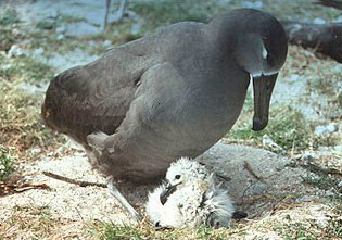 Black-footed Albatross (Phoebastria nigripes) brooding chick.